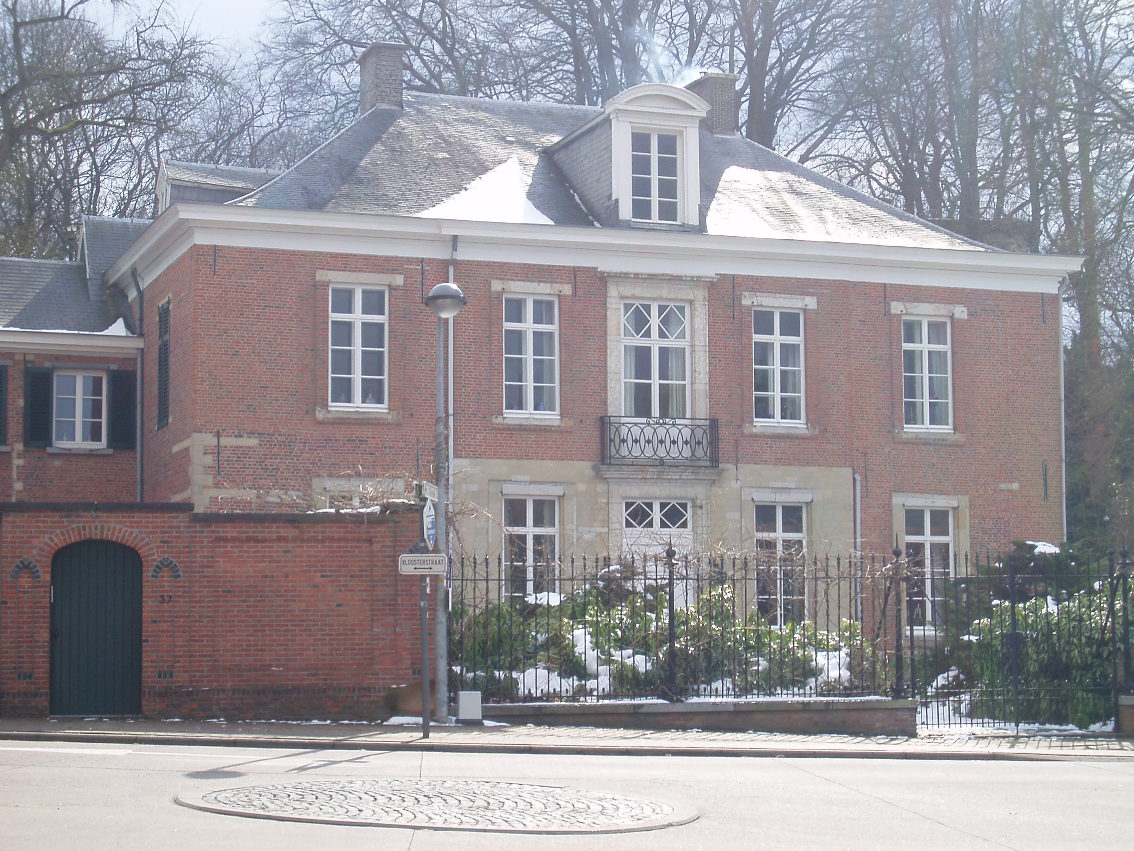 Bornem Dulft castle